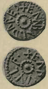 A silver-copper (.5 fine, 16 grains) sceat of Eanbald II, Archbishop of York from 796 to 808 or perhaps later. Typical of late Northumbrian coinage produced for kings and for Archbishops of York.